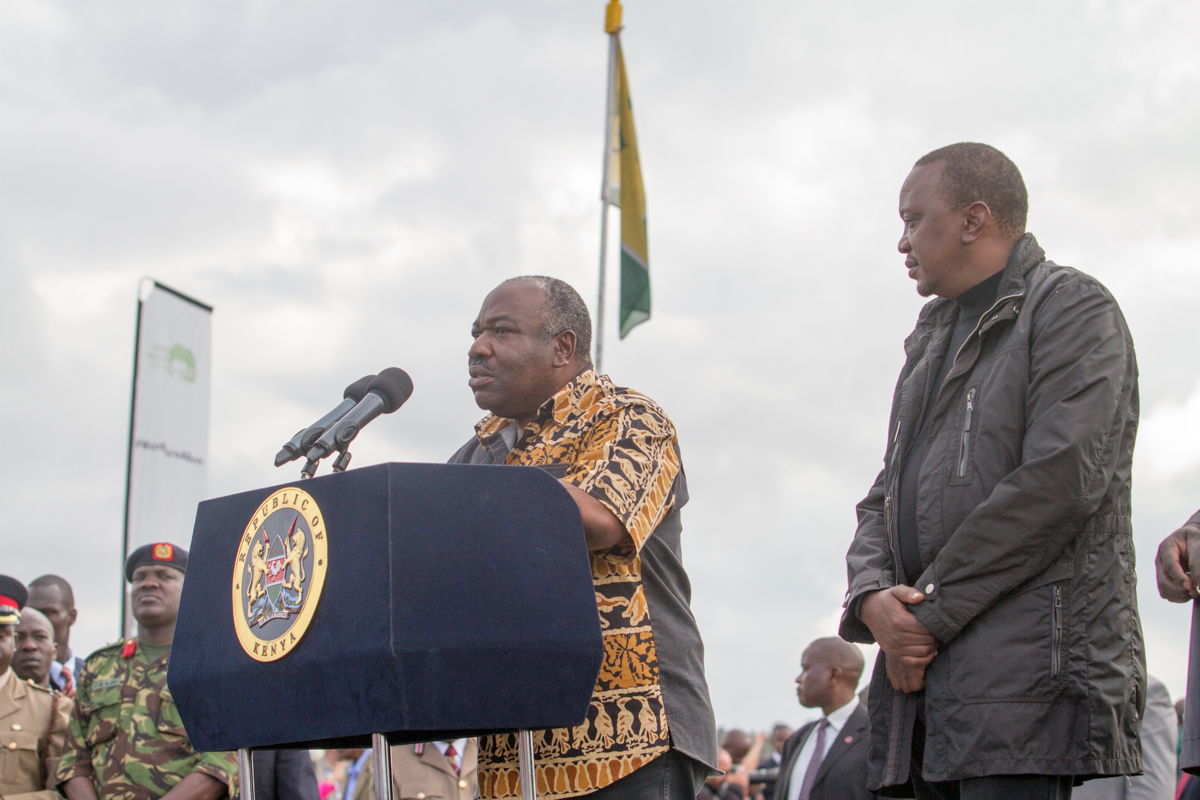 Presidents Ali Bongo Ondimba of Gabon and Uhuru Kenyatta of Kenya respond to questions from journalists after setting ablaze 105 tons of ivory and 1 ton of rhino horn in Nairobi National Park on 30th April 2016.